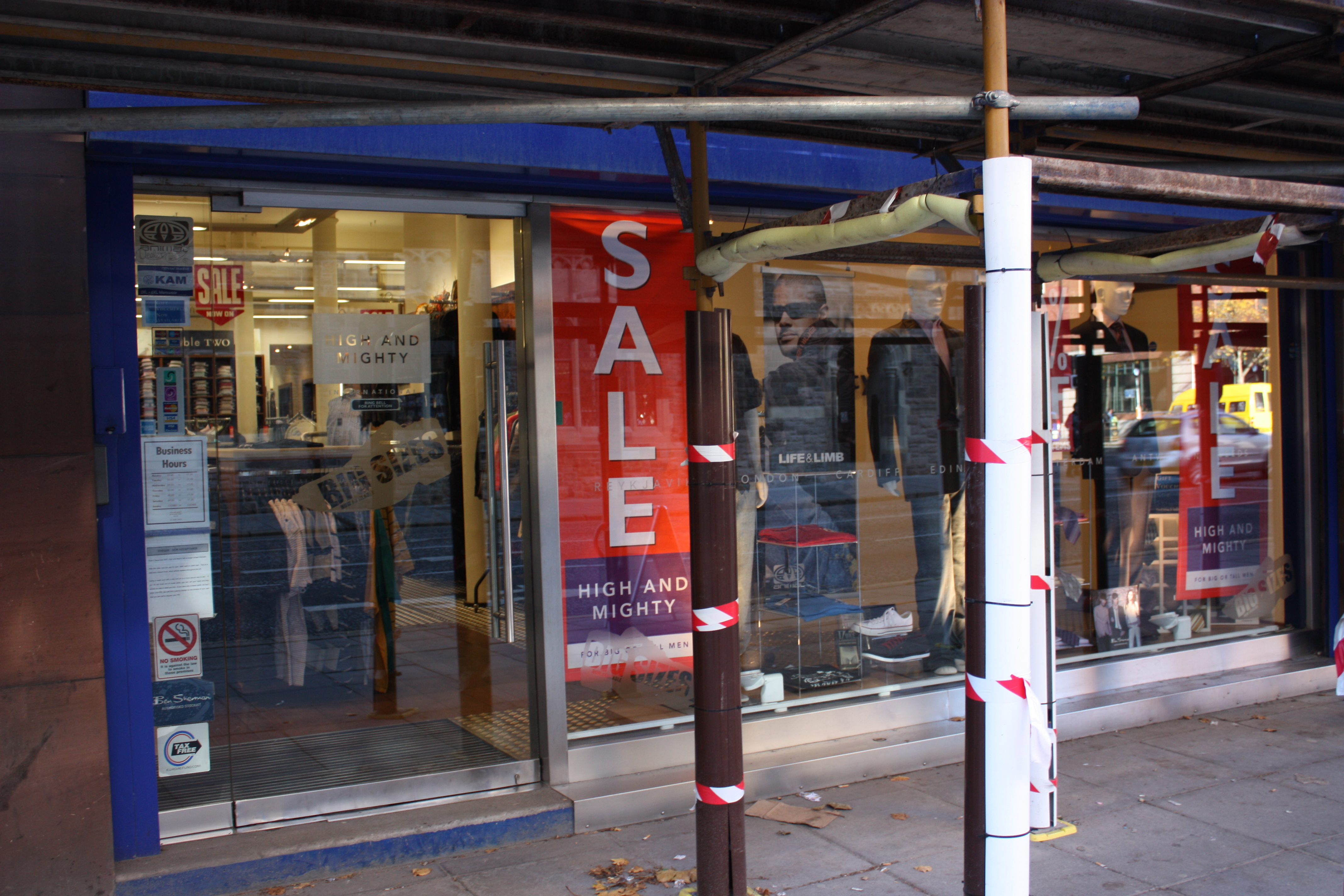 High and Mighty clothing shop, Howard Street, Belfast, Northern Ireland, October 2010